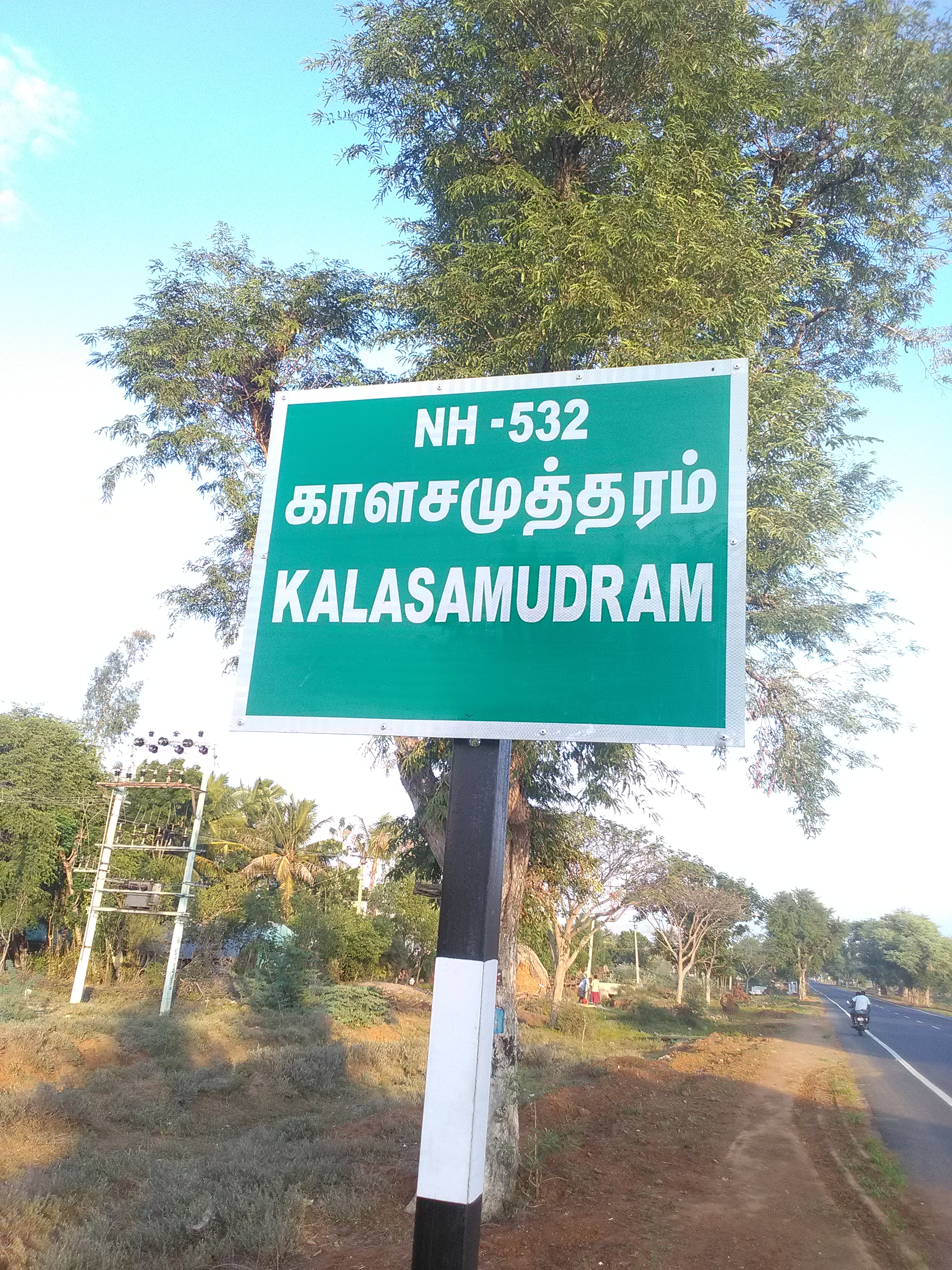 Kalasamuthiram